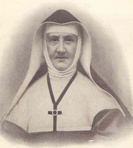 Sainte Marie-Thérèse Haze (1782-1876) is the foundress of the Daughters of the Cross (Liège) a Belgian religious institute